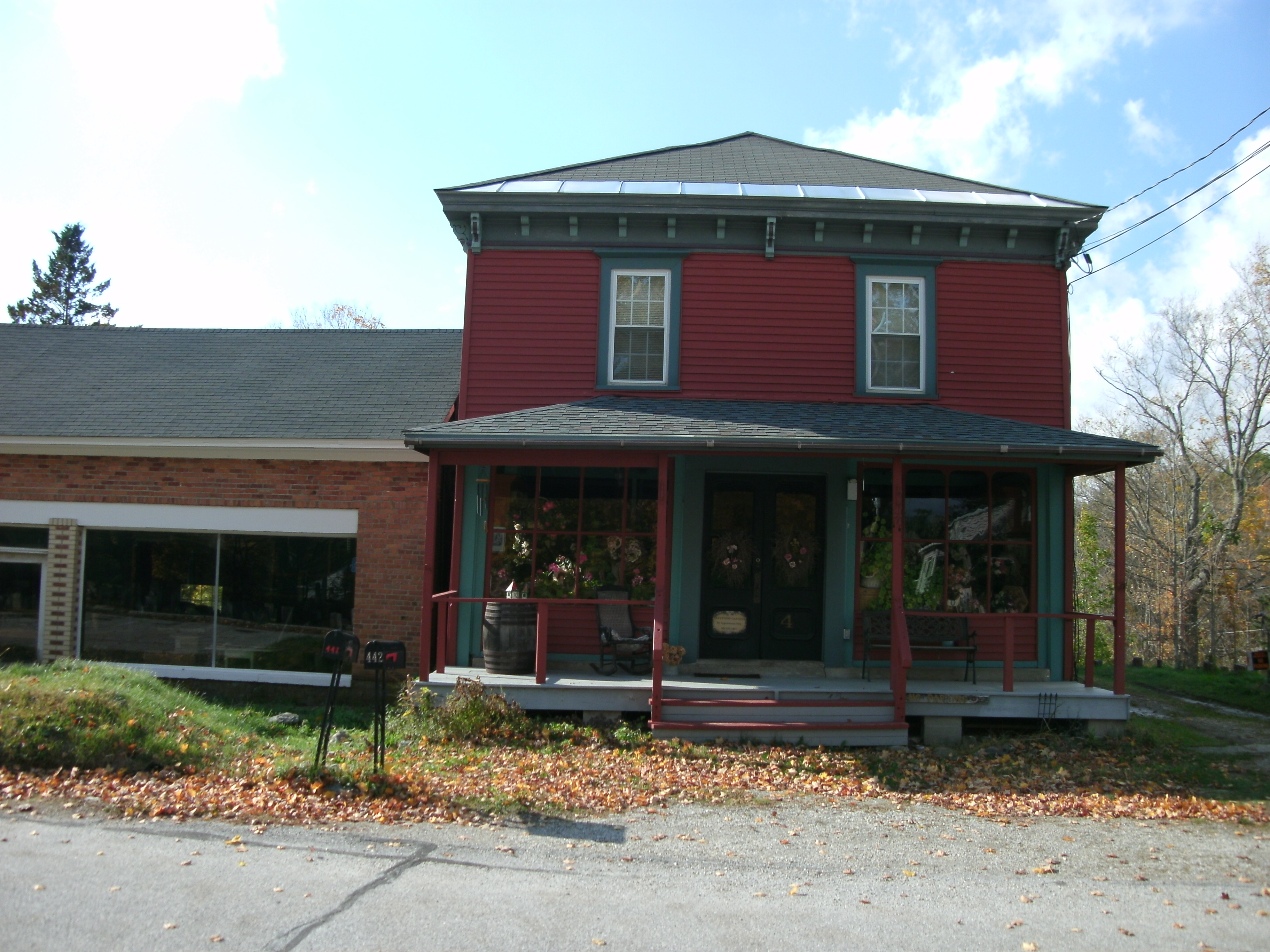 House in Pownal Center, Vermont